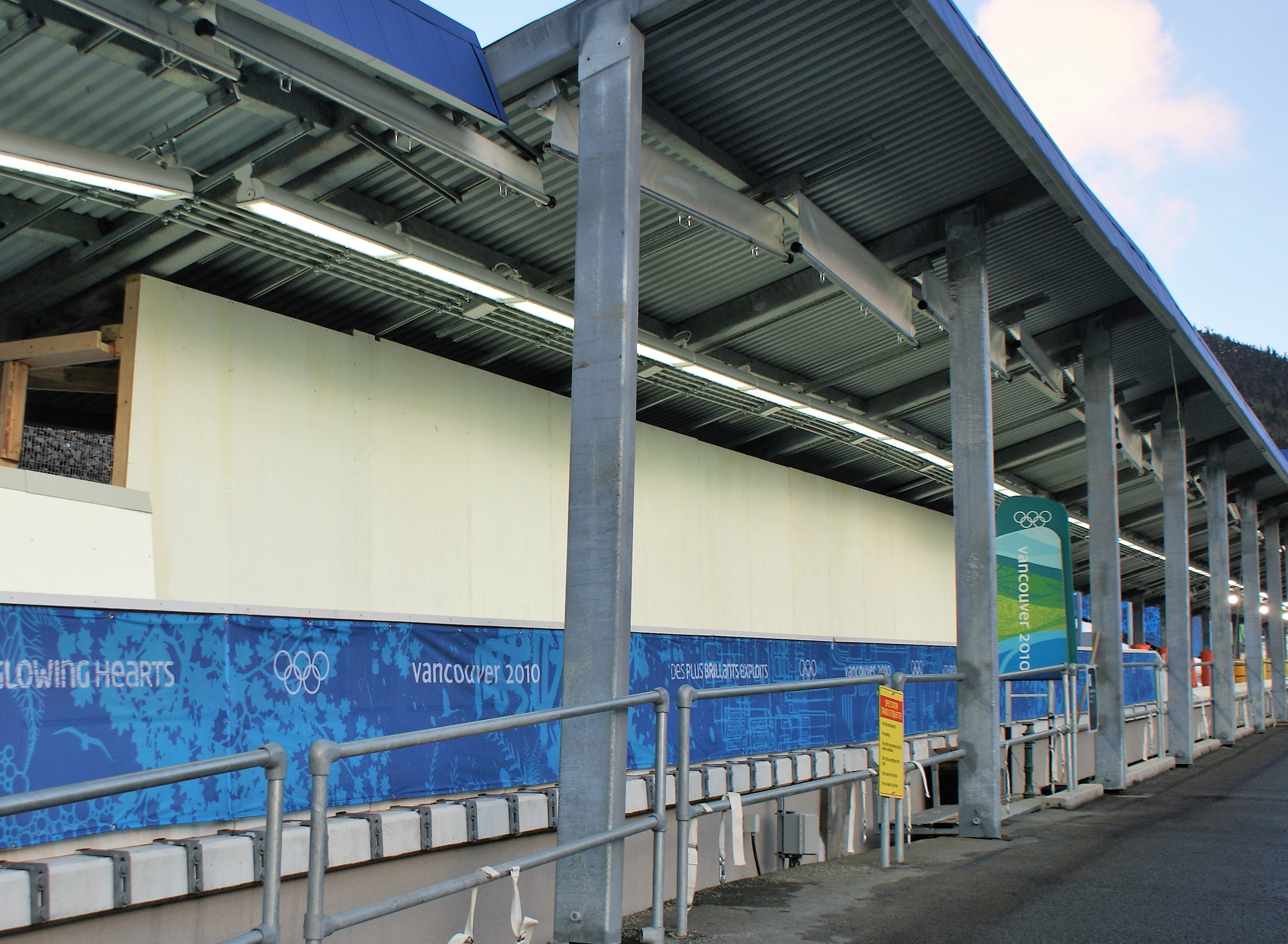 Wall constructed following the death of Georgian luge slider, Nodar Kumaritashvili, which occurred during a training run at the final turn of the track at the Whistler Sliding Center on the day of the opening ceremony of the Vancouver 2010 Winter Olympic Games (photo date: 14 February 2010)